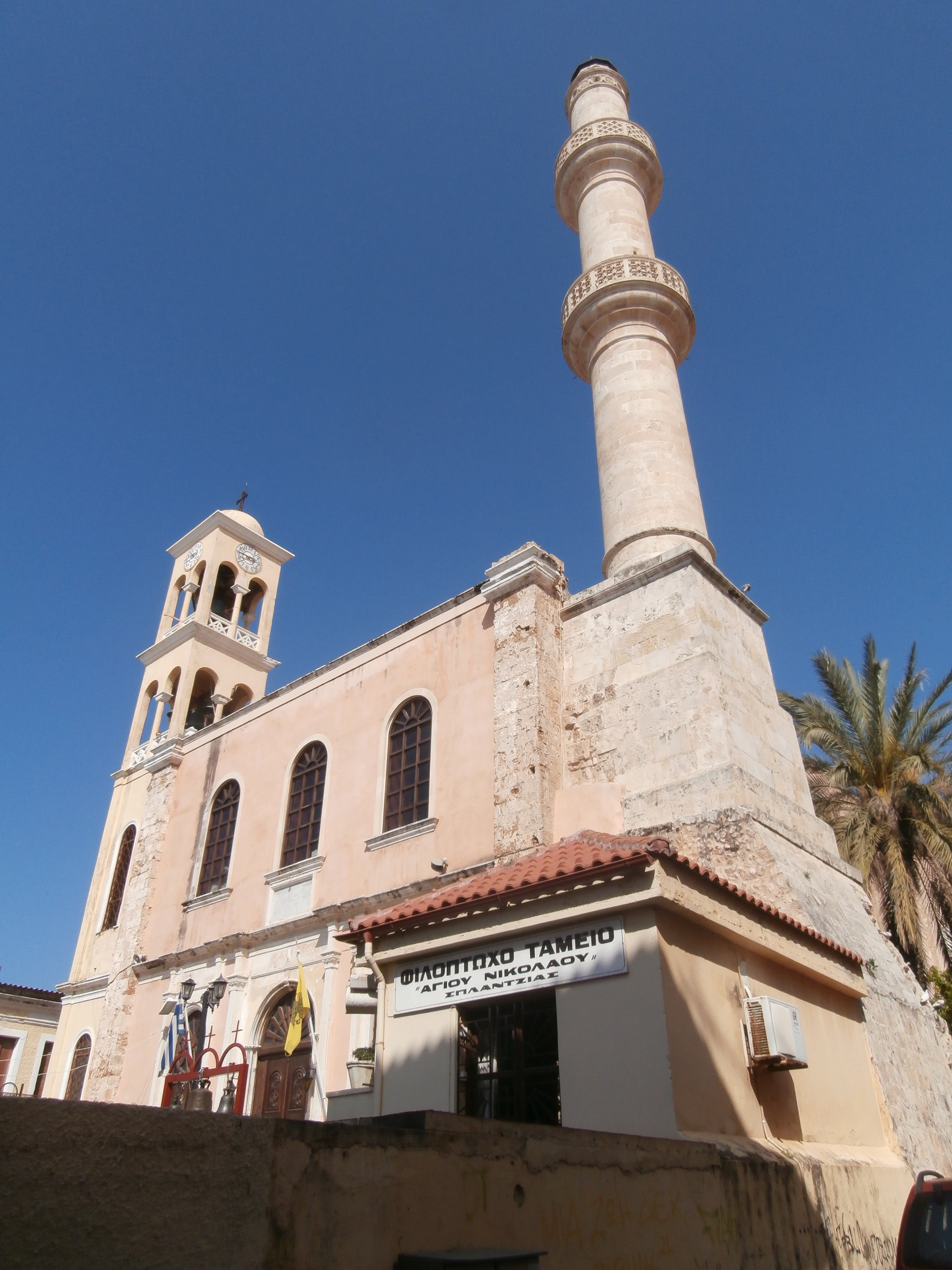 St Nicolaos of Splatzia, Chania